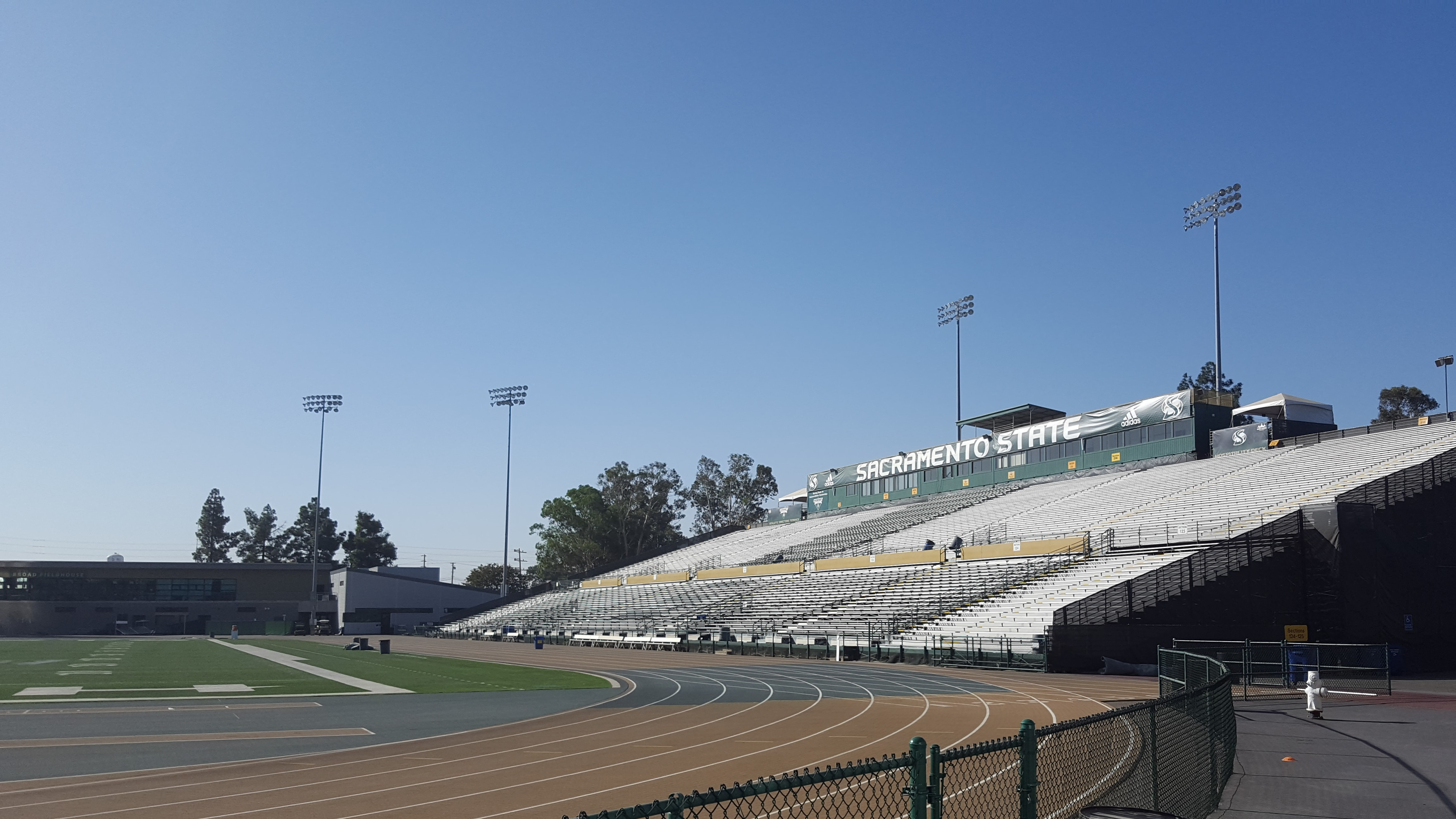 Hornet Stadium (Sacramento, California)